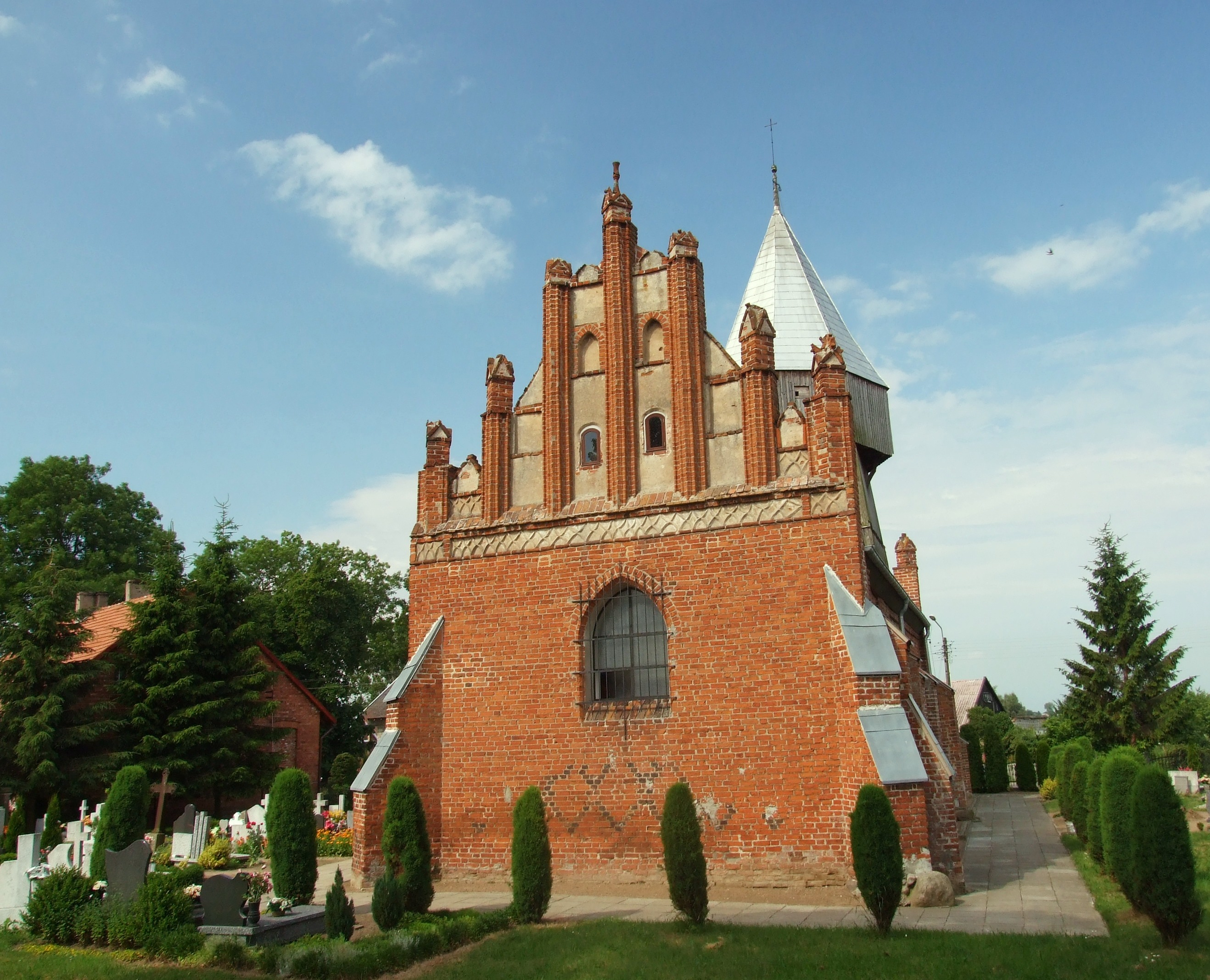 Church of st. George in the town of Jeziernik - rear part, Poland